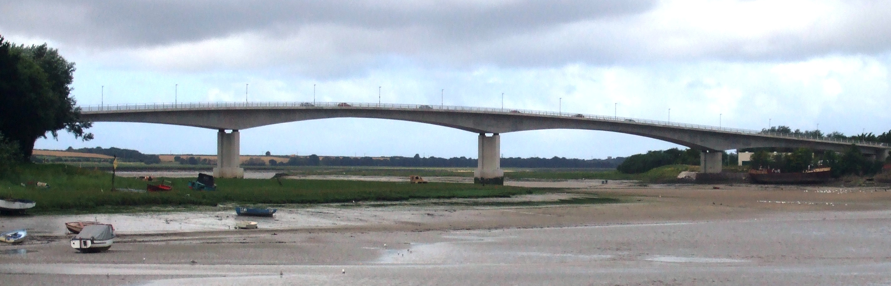 Taw Bridge over the River Taw at Barnstaple